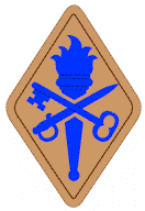 Quartermaster Center and School Patch from